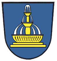 Coat of arms of Külsheim